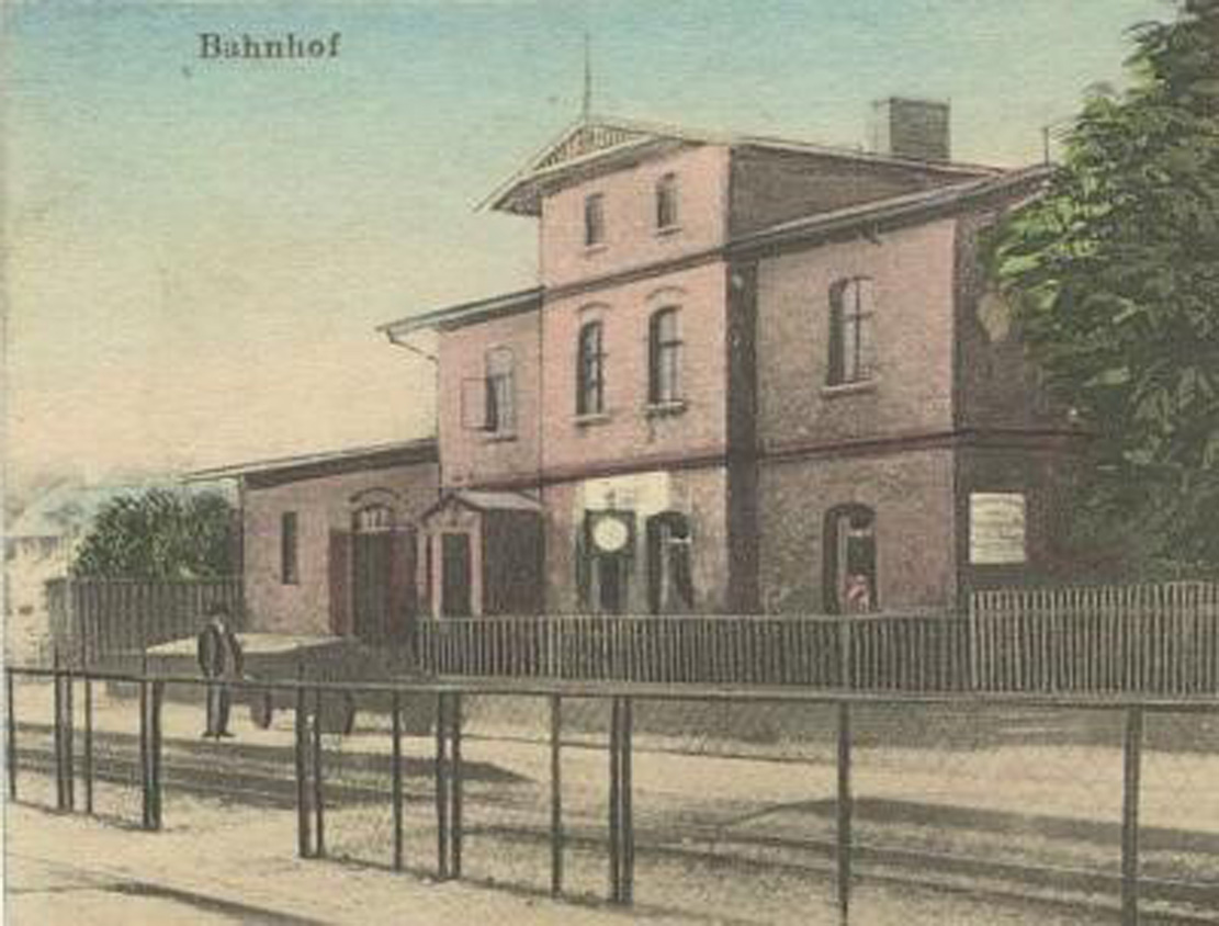 Bahnhof Topper